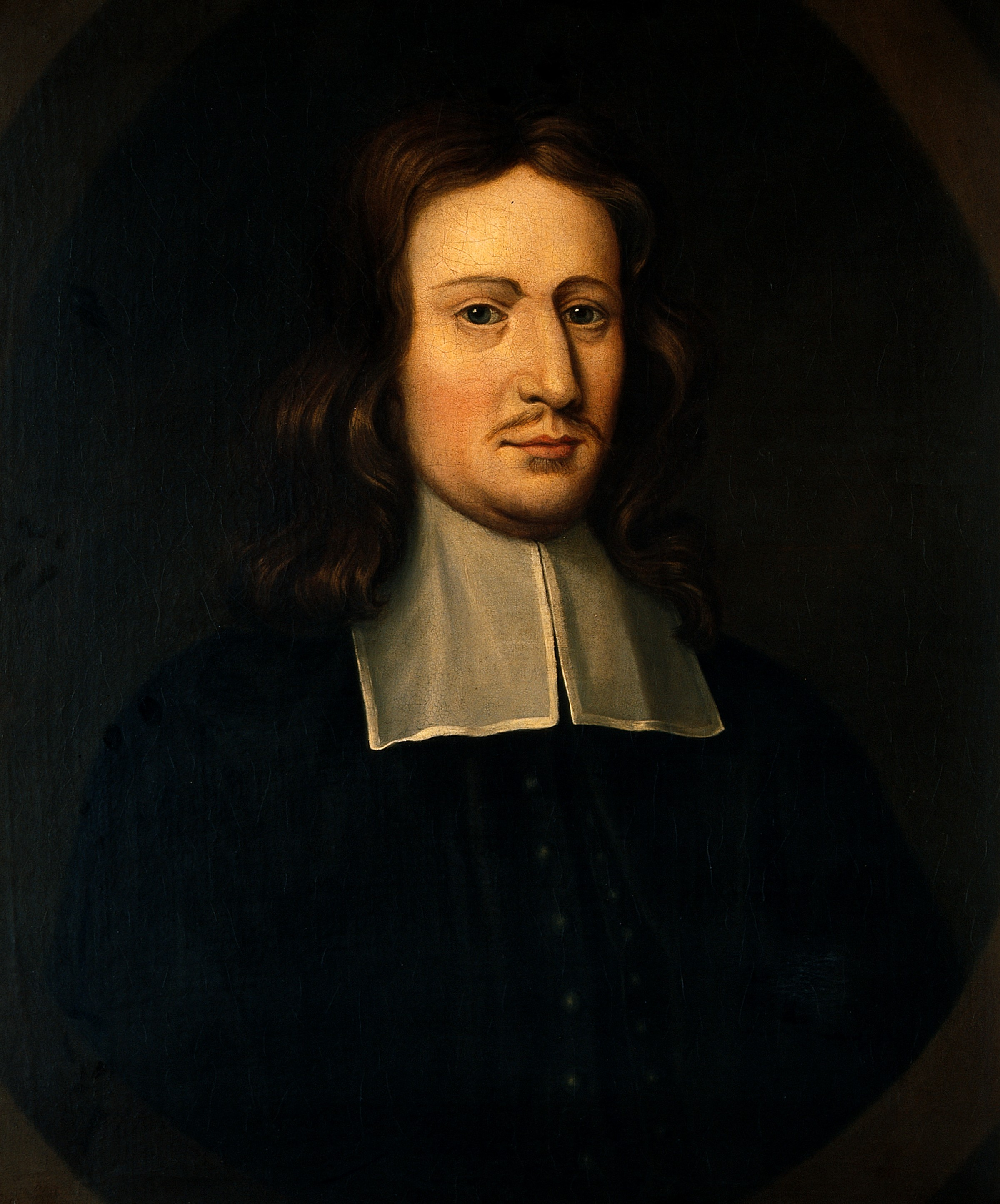 A man, called "Sir Charles Scarburgh". Oil painting. Iconographic Collections